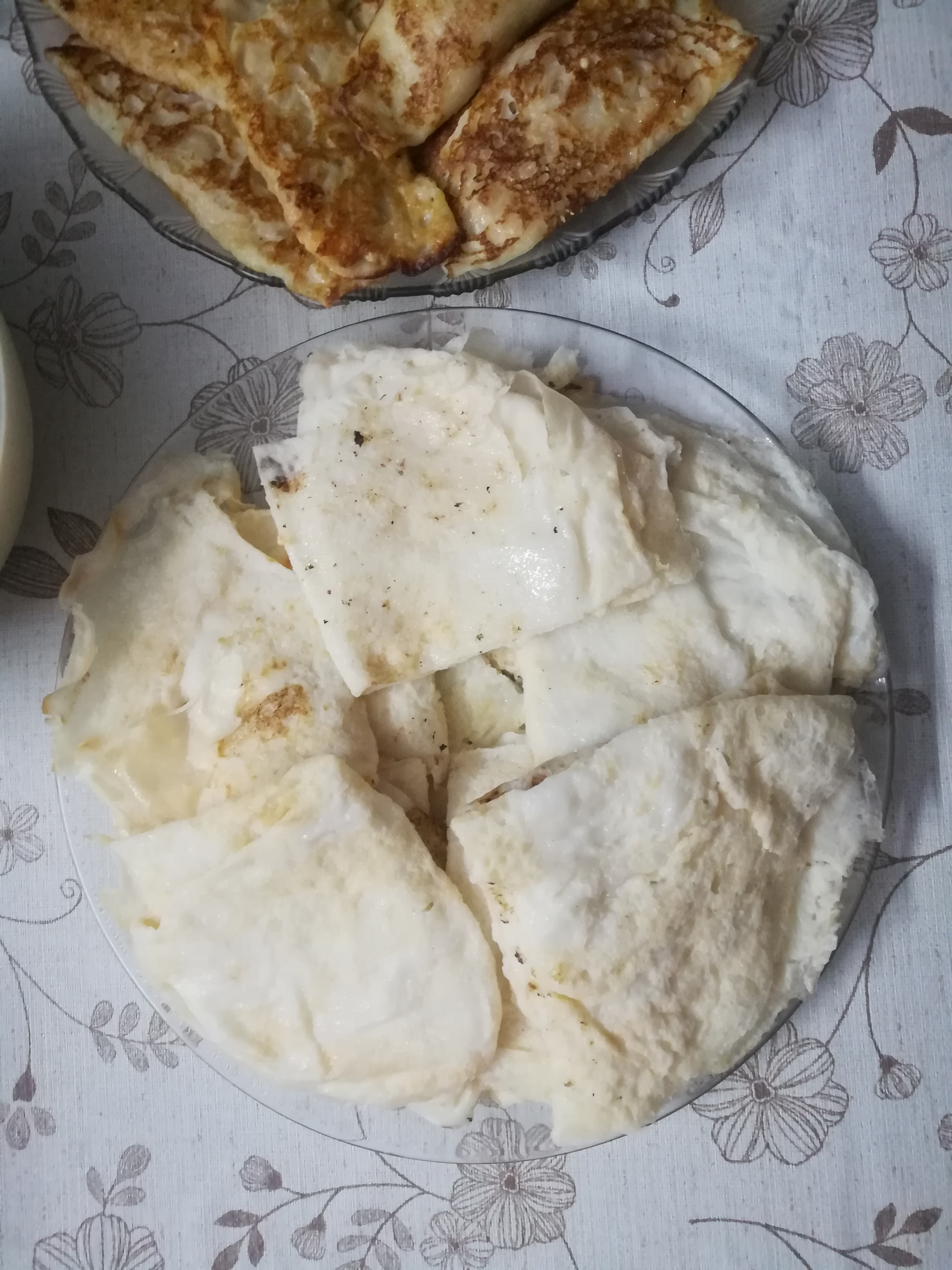 This is known as Soruchakli Pithey which is Makar Sankranti special Bengali dish.